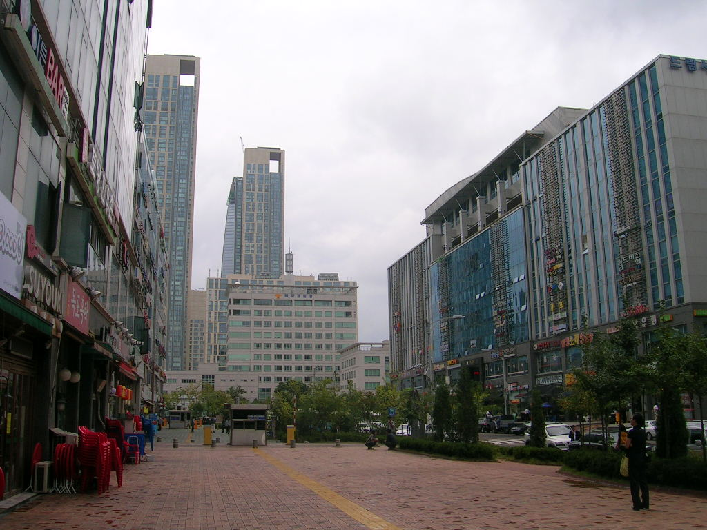 These are restaurants in Song-do City, South Korea.